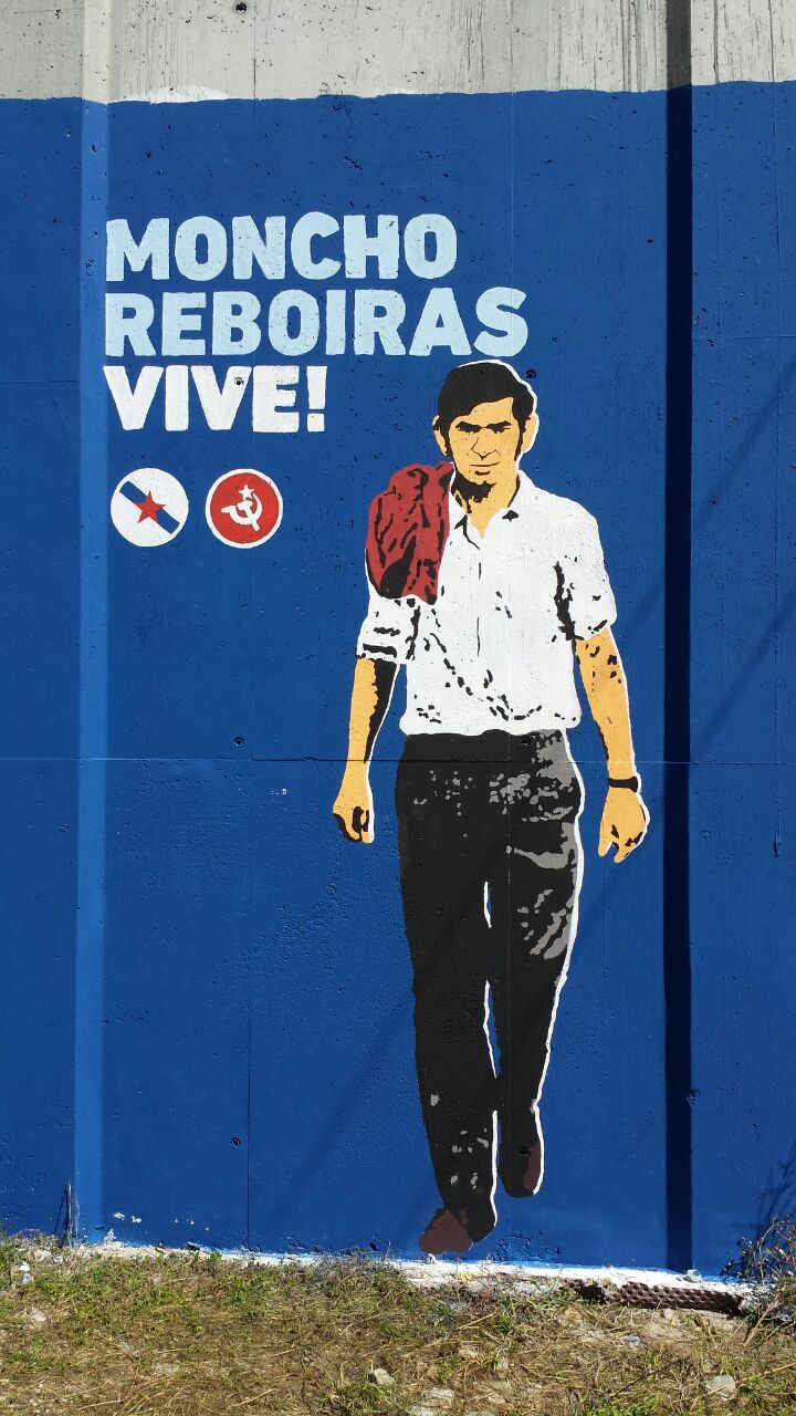 Moncho Reboiras graffiti